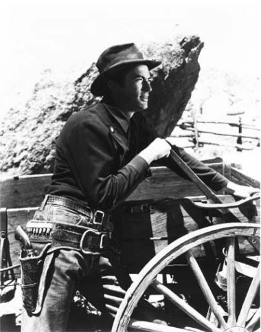 Publicity photo of Gregory Peck taken for film Yellow Sky (1948). See also film still. No copyright notice.